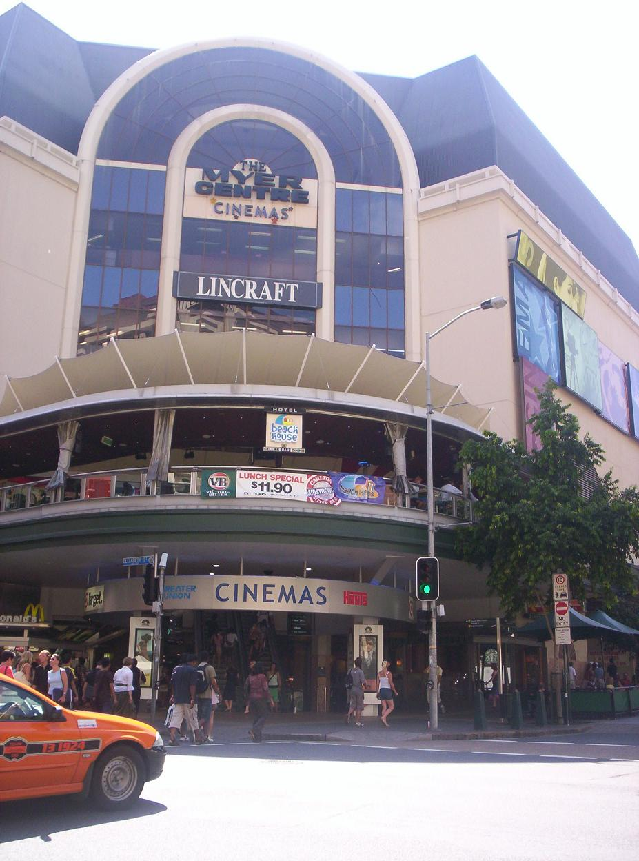 Myer Centre, Brisbane, Queensland, Australia.